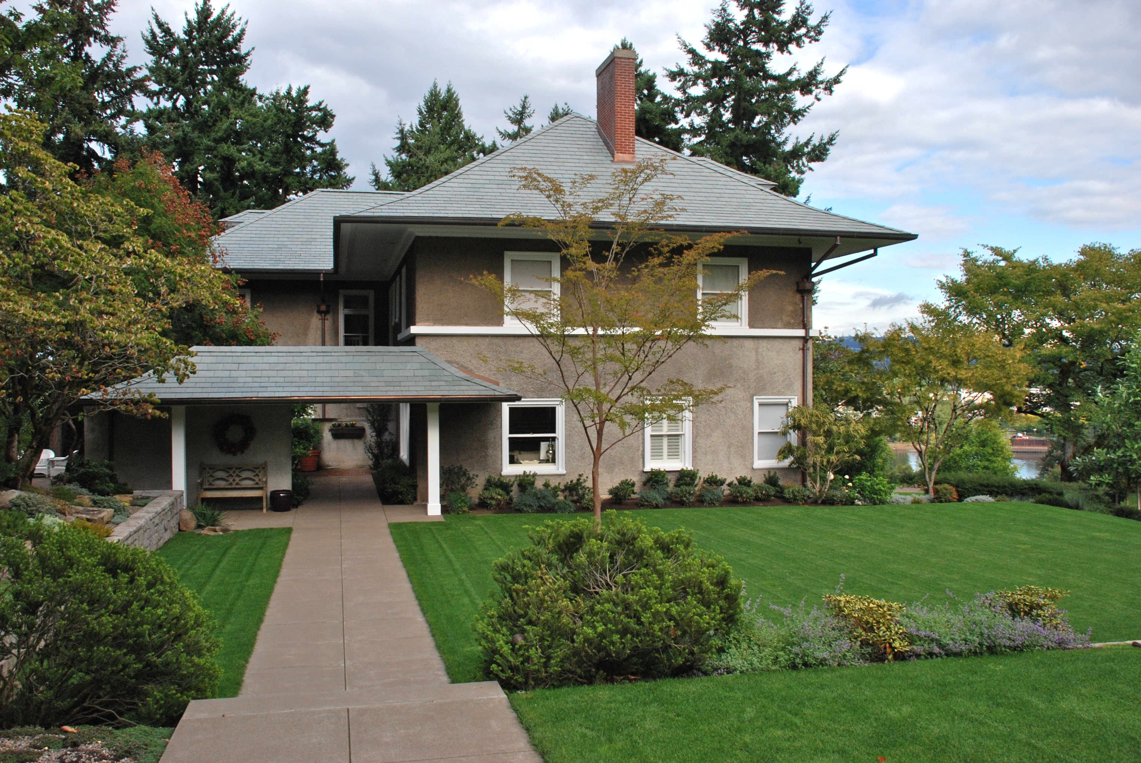 The Whidden–Kerr House and Garden, located in the Portland (Oregon) metropolitan area, in the unincorporated Dunthorpe area just south of the city of Portland, is listed on the U.S. National Register of Historic Places. The house overlooks the Willamette River, which can be seen in the background of the photo.